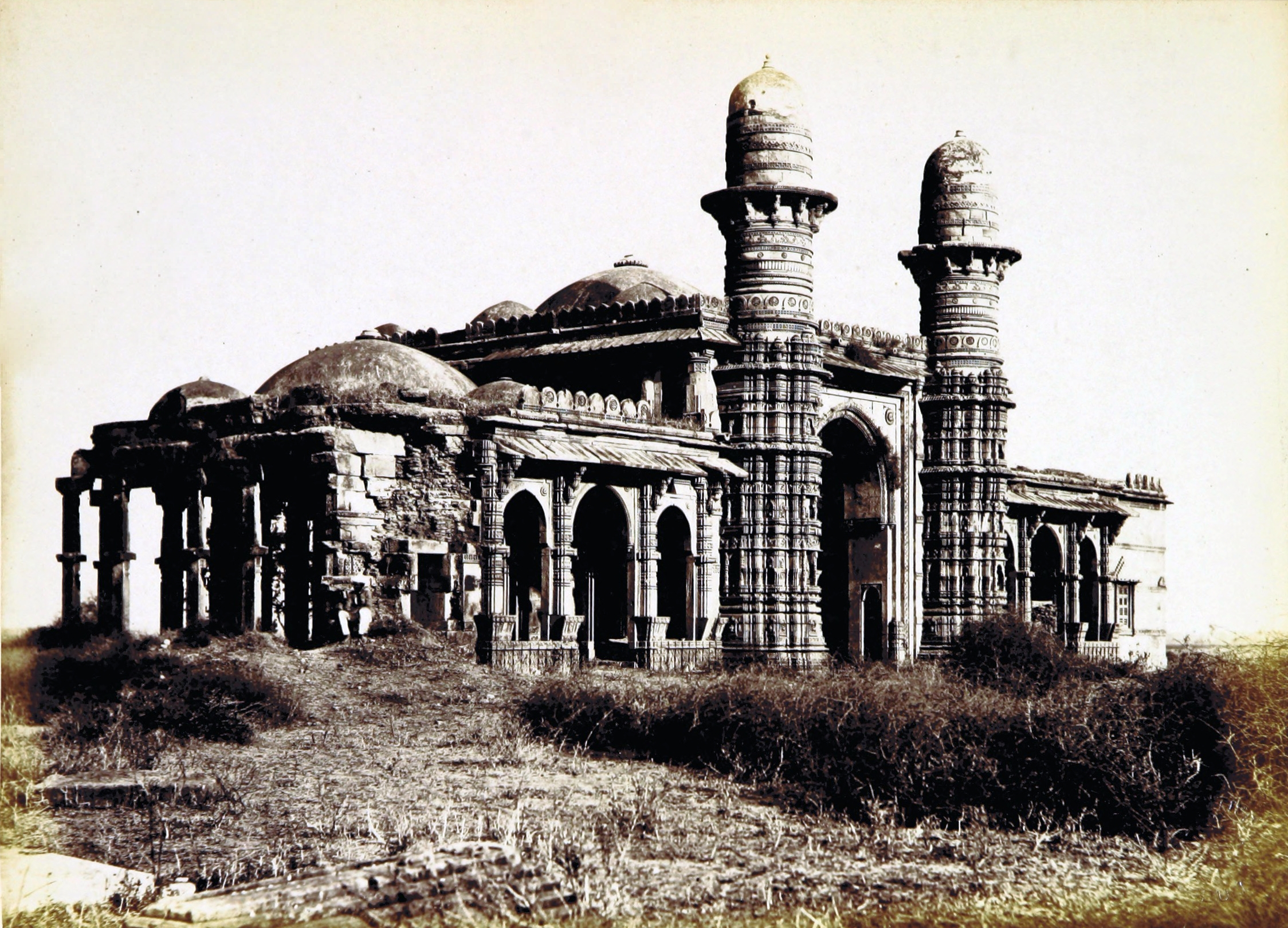 Image taken from: Title: "Architecture at Ahmedabad, the Capital of Goozerat, photographed by Colonel Biggs, ... With an historical and descriptive sketch, by T. C. H., ... and architectural notes by J. Fergusson, etc" Author: HOPE, Theodore Cracraft - Sir, K.C.S.I Contributor: BIGGS, Thomas. Contributor: FERGUSSON, James - Architect Shelfmark: "British Library HMNTS 10057.f.17.", "British Library OC V 6665" Page: 259 Place of Publishing: London Date of Publishing: 1866 Issuance: monographic Identifier: 001730119 Note: The colours, contrast and appearance of these illustrations are unlikely to be true to life. They are derived from scanned images that have been enhanced for machine interpretation and have been altered from their originals. If you wish to purchase a high quality copy of the page that this image is drawn from, please order it here. Please note that you will need to enter details from the above list - such as the shelfmark, the page, the book's volume and so on - when filling out your order. Following this or the link above will take you to the British Library's integrated catalogue. You will be able to download a PDF of the book this image is taken from, as well as view the pages up close with the 'itemViewer'. Click on the 'related items' to search for the electronic version of this work. Click here to see all the illustrations in this book and click here to browse other illustrations published in books in the same year. Please click on the tags shown on the right-hand side for other ways to browse the illustrations.